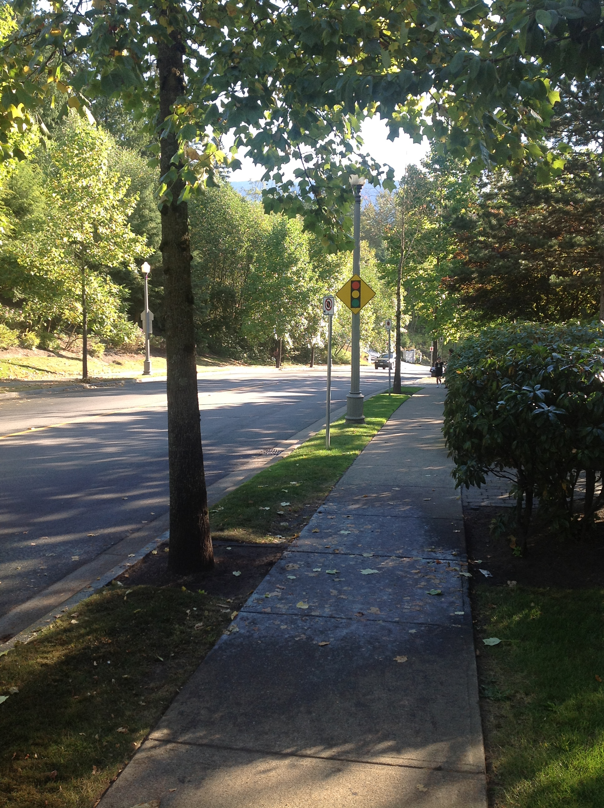 Drips of honeydew create big sticky area under the tree